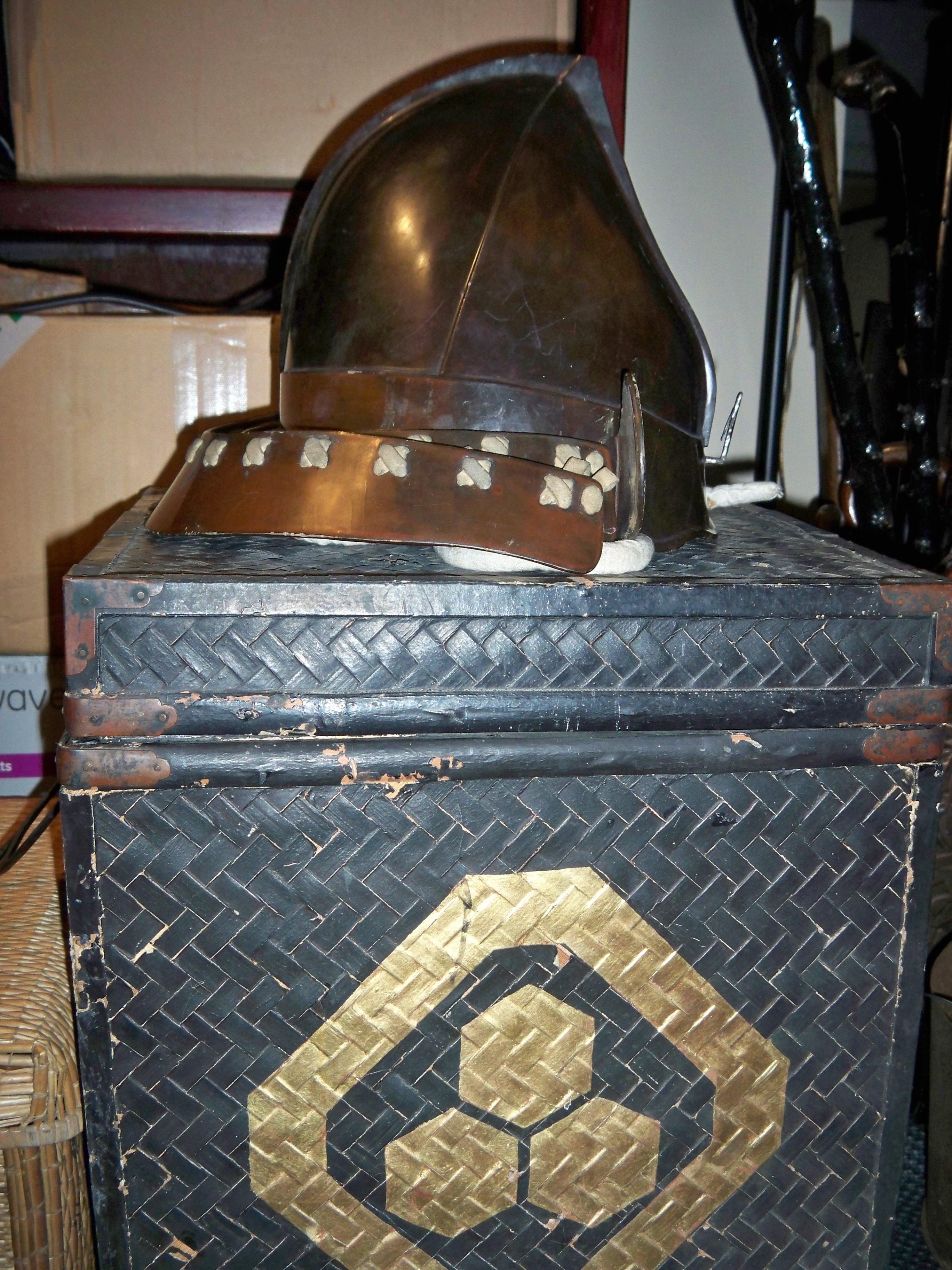 Antique Japanese (samurai) iron momonari kabuto A samaurai helmet kabuto in the momonari (peach-shaped) style, resting on an armor storage box hitsu that is decorated with a family crest mon.